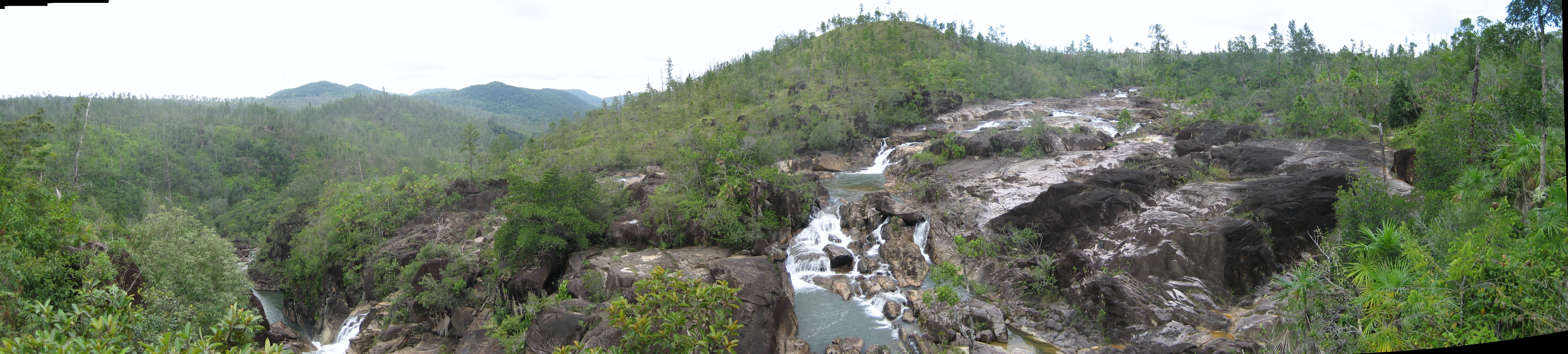 Panorama of the Mountain Pine Ridge Forest Reserve, in the Cayo District of Belize.